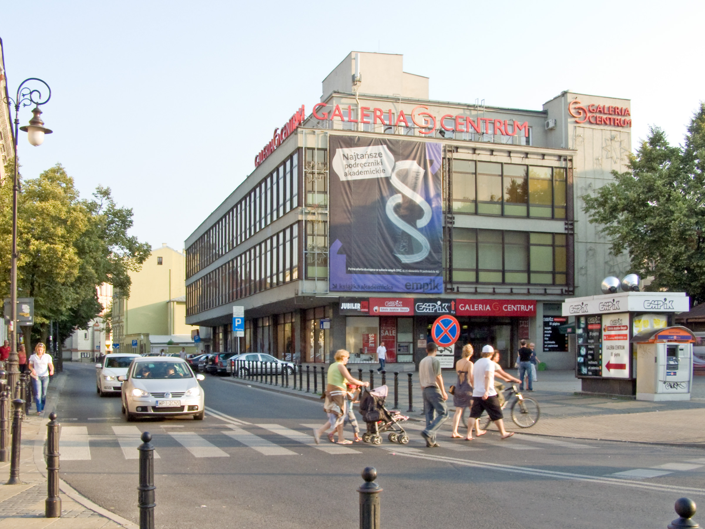 Kapucyńska Street in Lublin, Galeria Centrum.